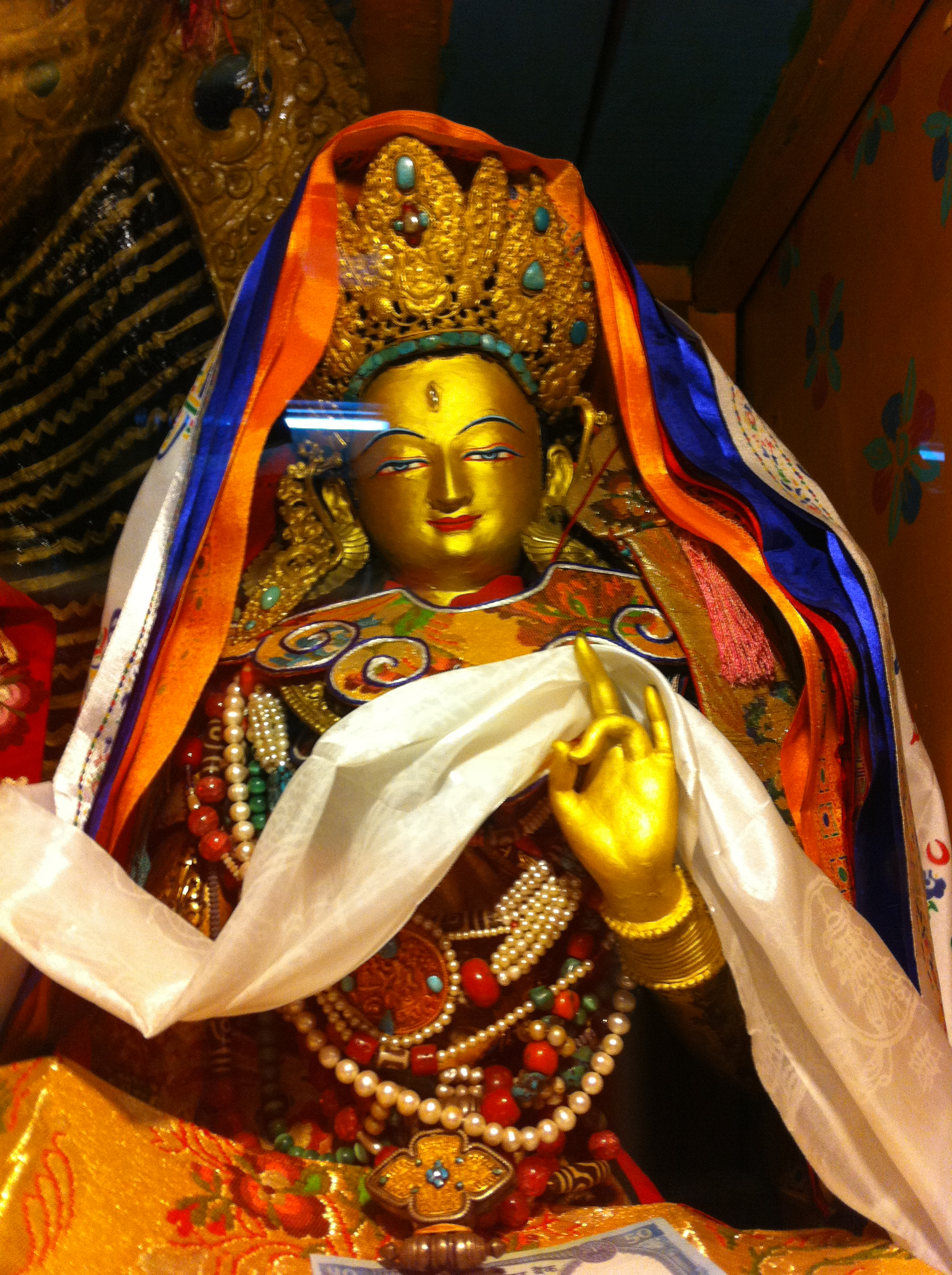 Famously known as spoken GREEN TARA from Nyanang Phelgyeling Monastery, Tibet.